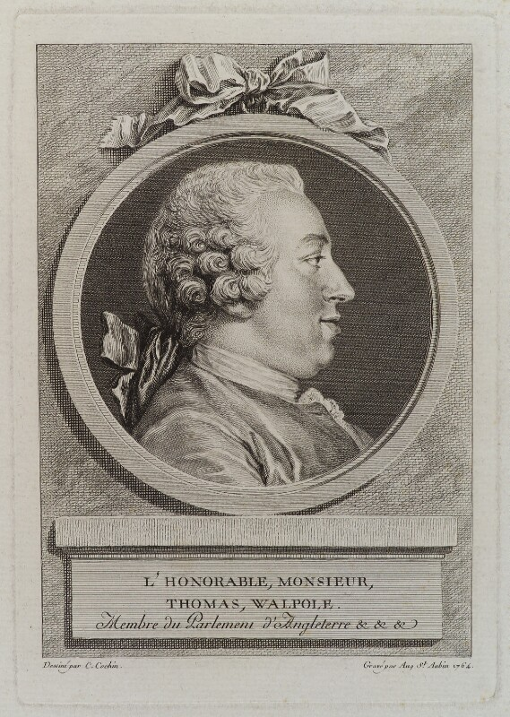 Portrait of Thomas Walpole (1727–1803), British politicians and banker in Paris.